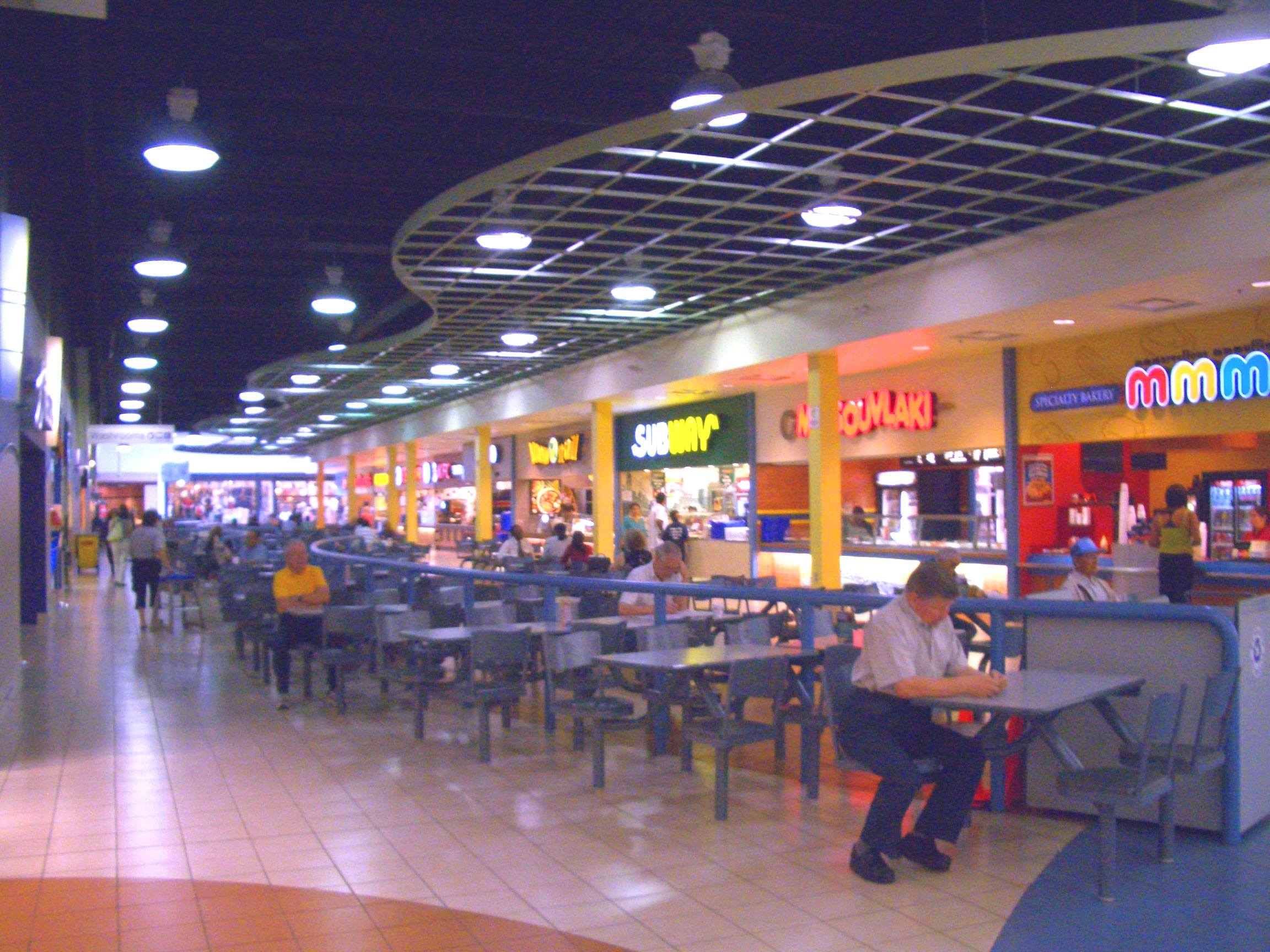 Photograph of the food court at Shoppers World Brampton in Brampton, Ontario, Canada.